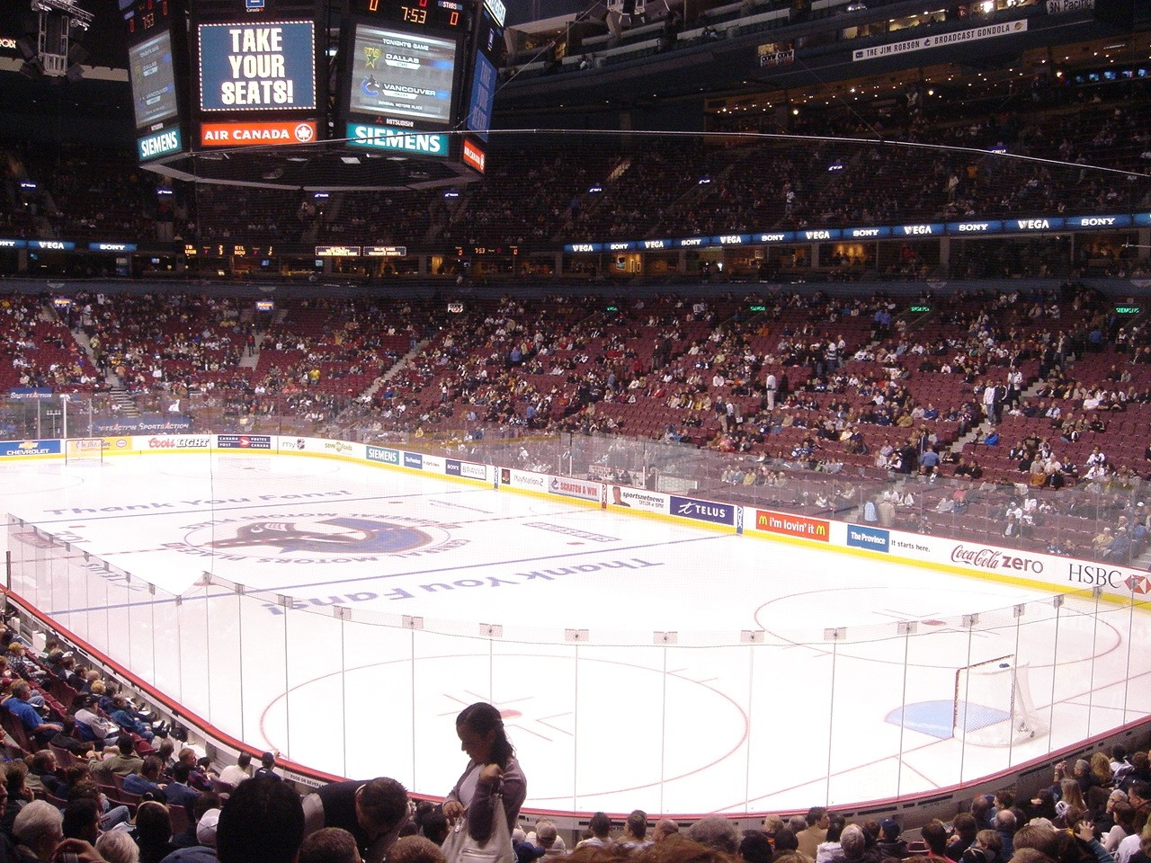 GM Place,Vancouver, October 5th, 2005